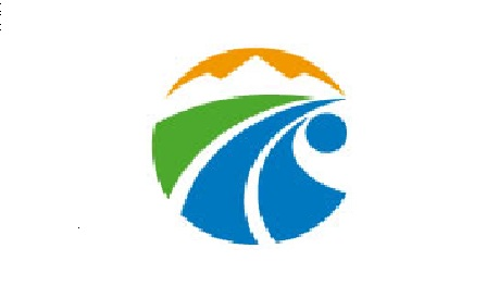 Flag of Kirishima, Kagoshima